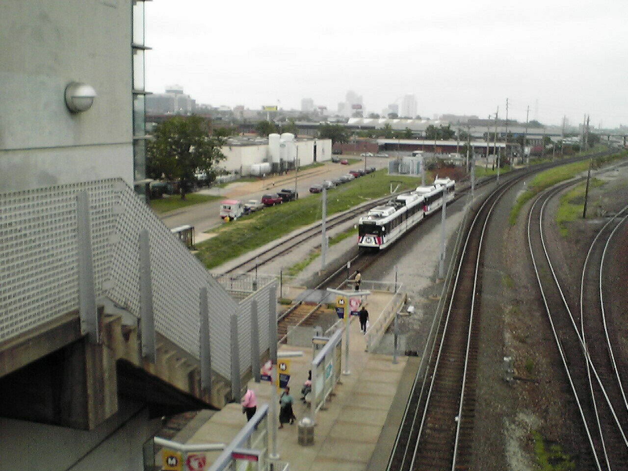 This station has to be located in about the most depressing place in St. Louis south of Delmar.